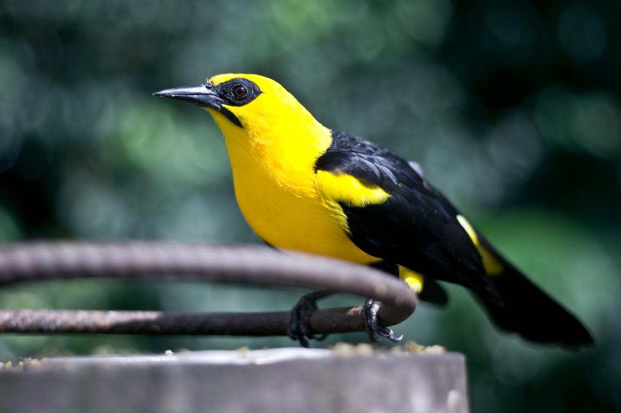 An Oriole Blackbird in Belem, Para, Brazil.